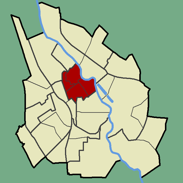 Locator map of Kesklinn, Tartu, Estonia.